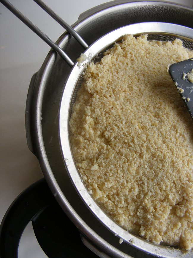 Straining the boiled ground soybean mixture to get the soy milk. What's in the sieve is called okara.